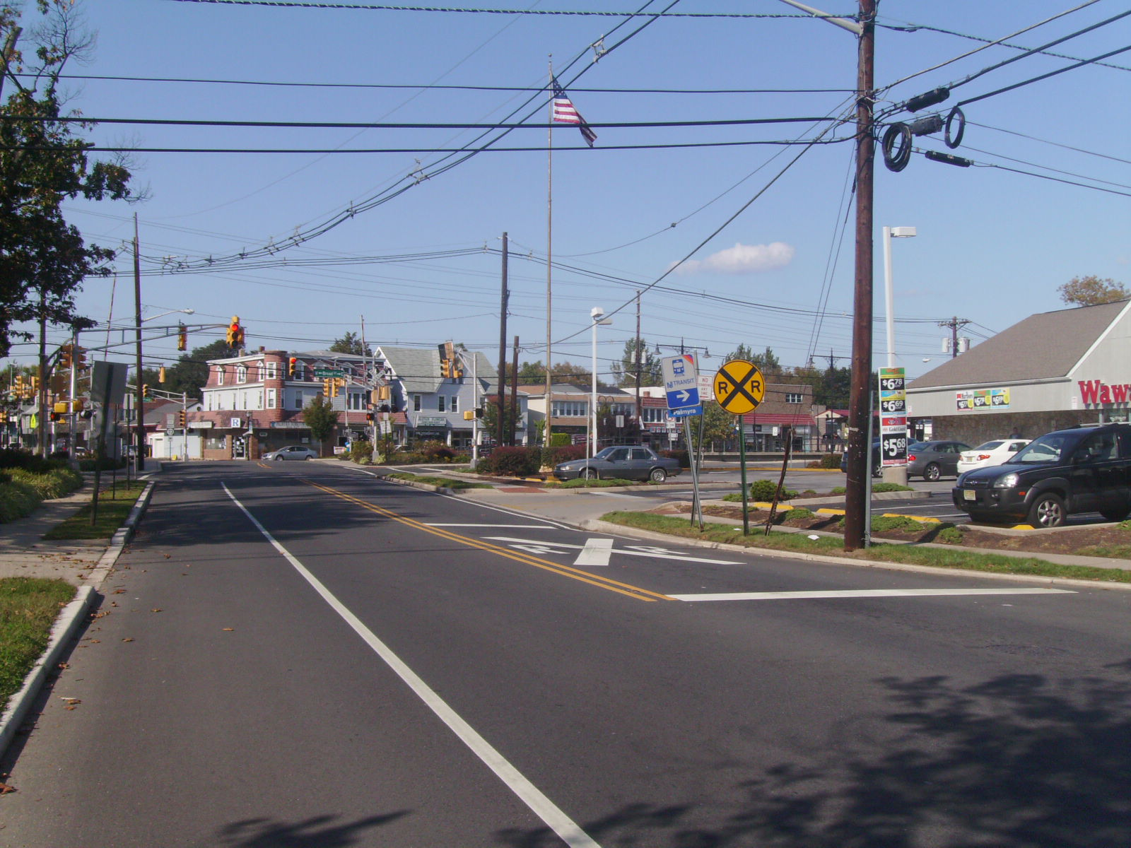 Former Route 155;now Burlington County Route 607 (Cinnaminson Avenue) heading westbound towards County Route 543.